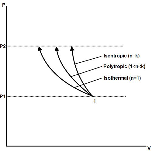 Combined P-v diagram of isentropic compression processes.